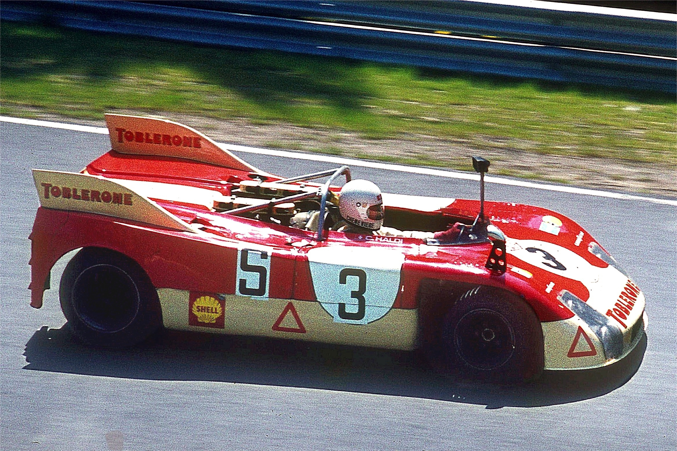 Porsche 908/3 driven by Bernard Chenevière during 1000 km race at Nürburgring.